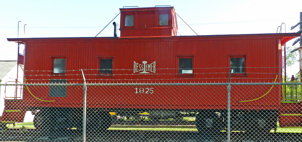 We turned off busy I90 at Conneaut, Ohio and found a railroad museum where I spotted this rare Bessemer caboose. The museum is open only on weekends, so I shot t rough the fence. The railroad runs from the Lake Erie doacks at Conneaut to steel mills in Pittsburgh. It's now owned by CN.